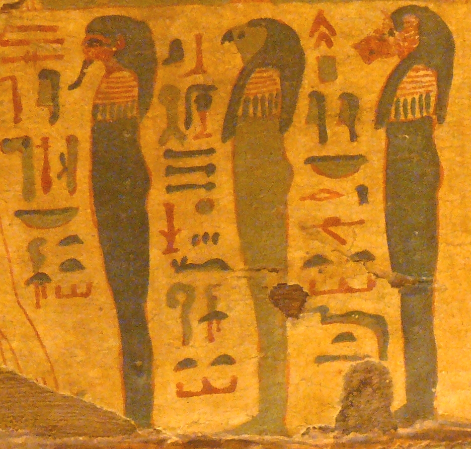 Four sons of Horus: Imset, Kebehsenuf y Hapi.